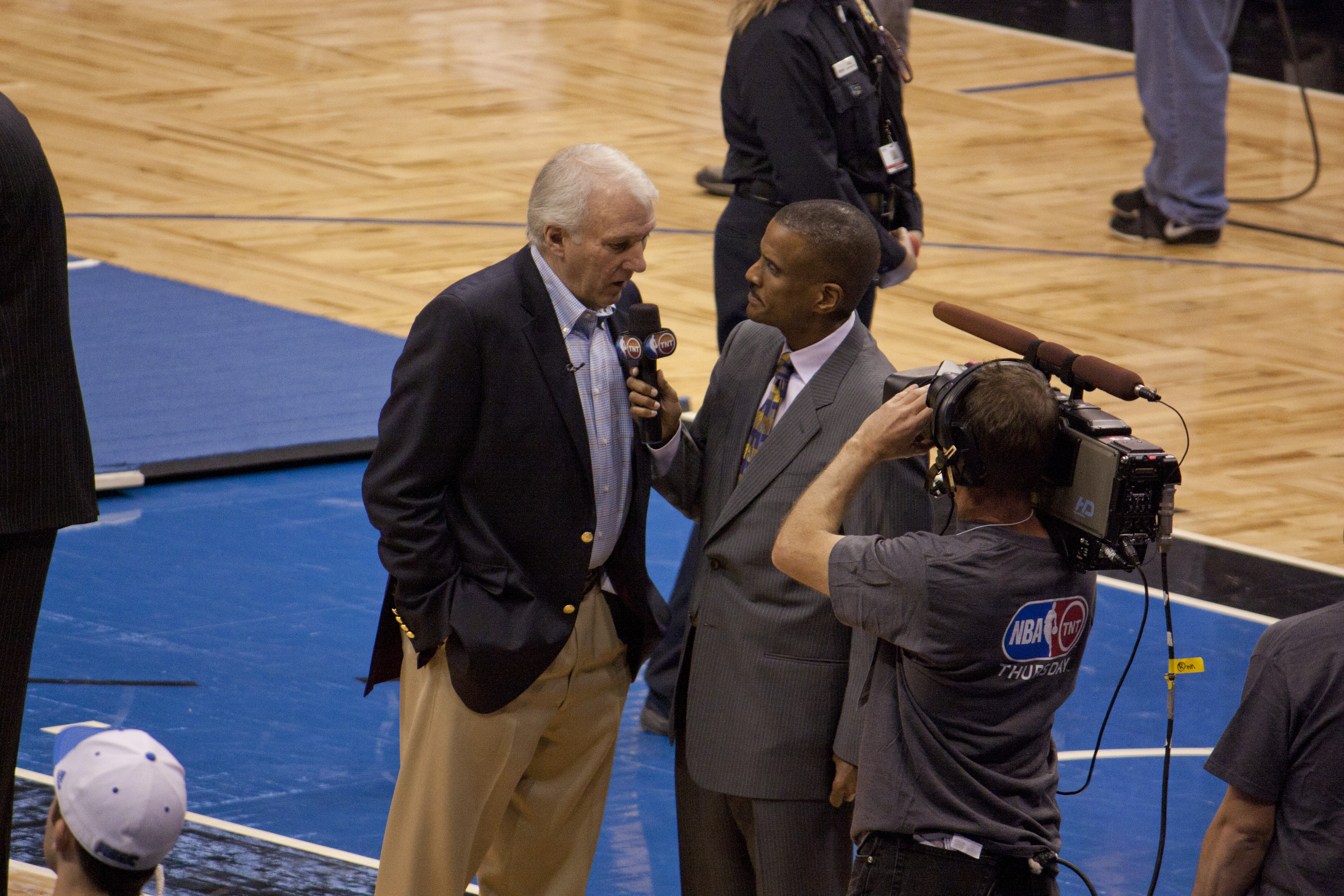 San Antonio Spurs vs Orlando Magic, December 2010, Orlando, Florida